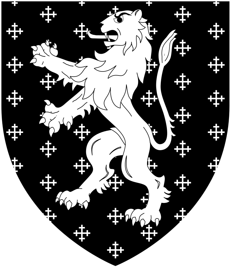 Arms of Long of South Wraxall and Draycot Cerne in Wiltshire: Sable semée of cross-crosslets, a lion rampant argent (A genealogical and heraldic history of the commoners of Great Britain and ... By John Burke, Vol.4, 1838, p.65[1])